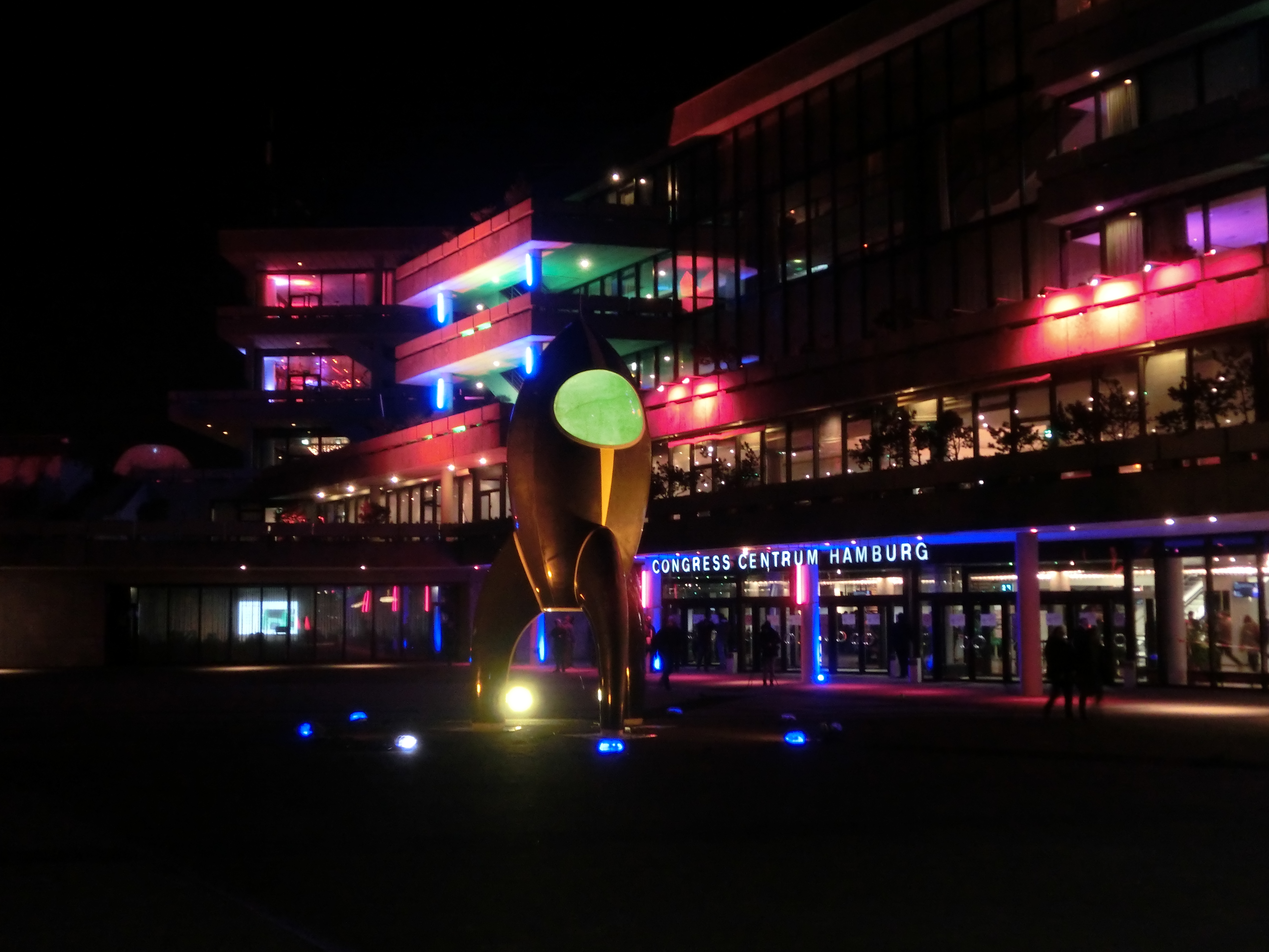 Illuminated Congress Center and Fairy Dust rocket at 31. Chaos Communication Congress